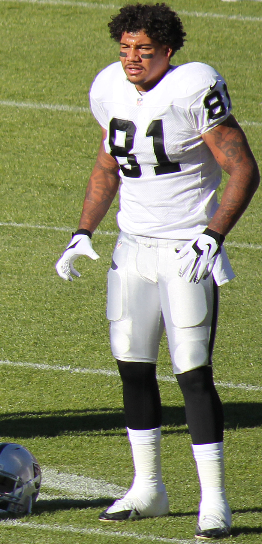 Mychal Rivera, a player on the National Football League.